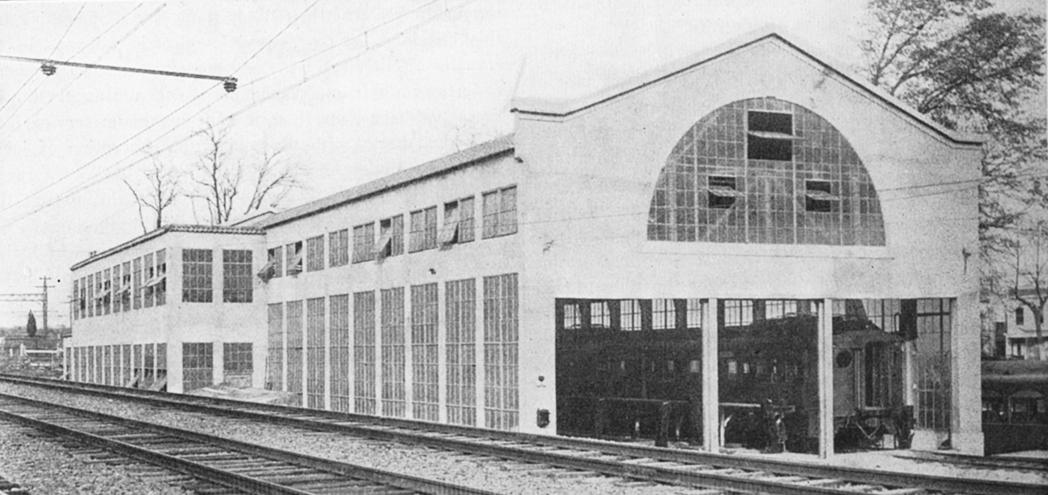 Repair shop of the New York, Westchester and Boston Railway.